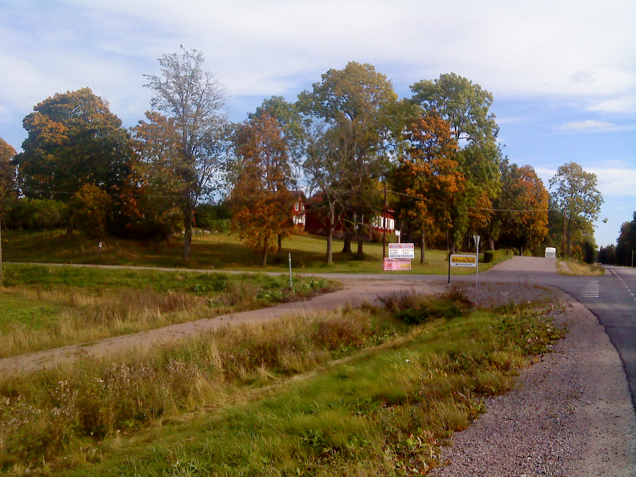 Junction - County roads C-714 (from right) and C-709